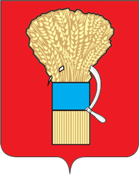 Ussuriysk (Primorsky kray), coat of arms